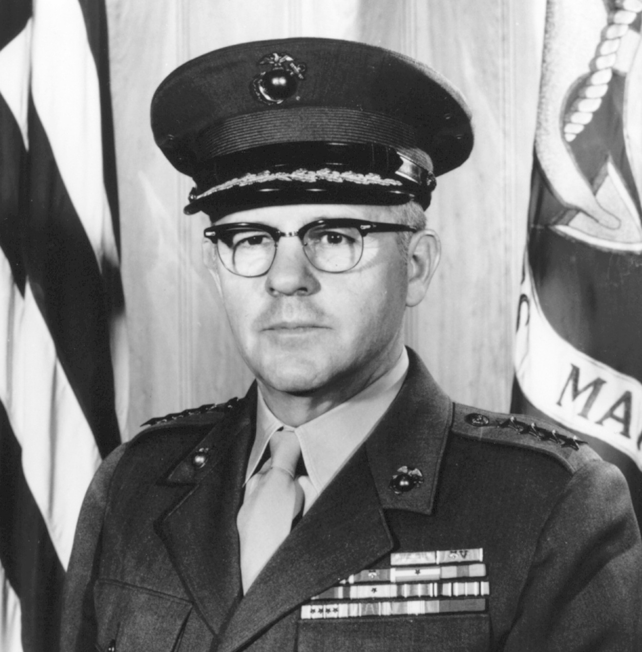 General David M. Shoup (1904-1983), Medal of Honor recipient and 22nd Commandant of the United States Marine Corps (1960-1963)